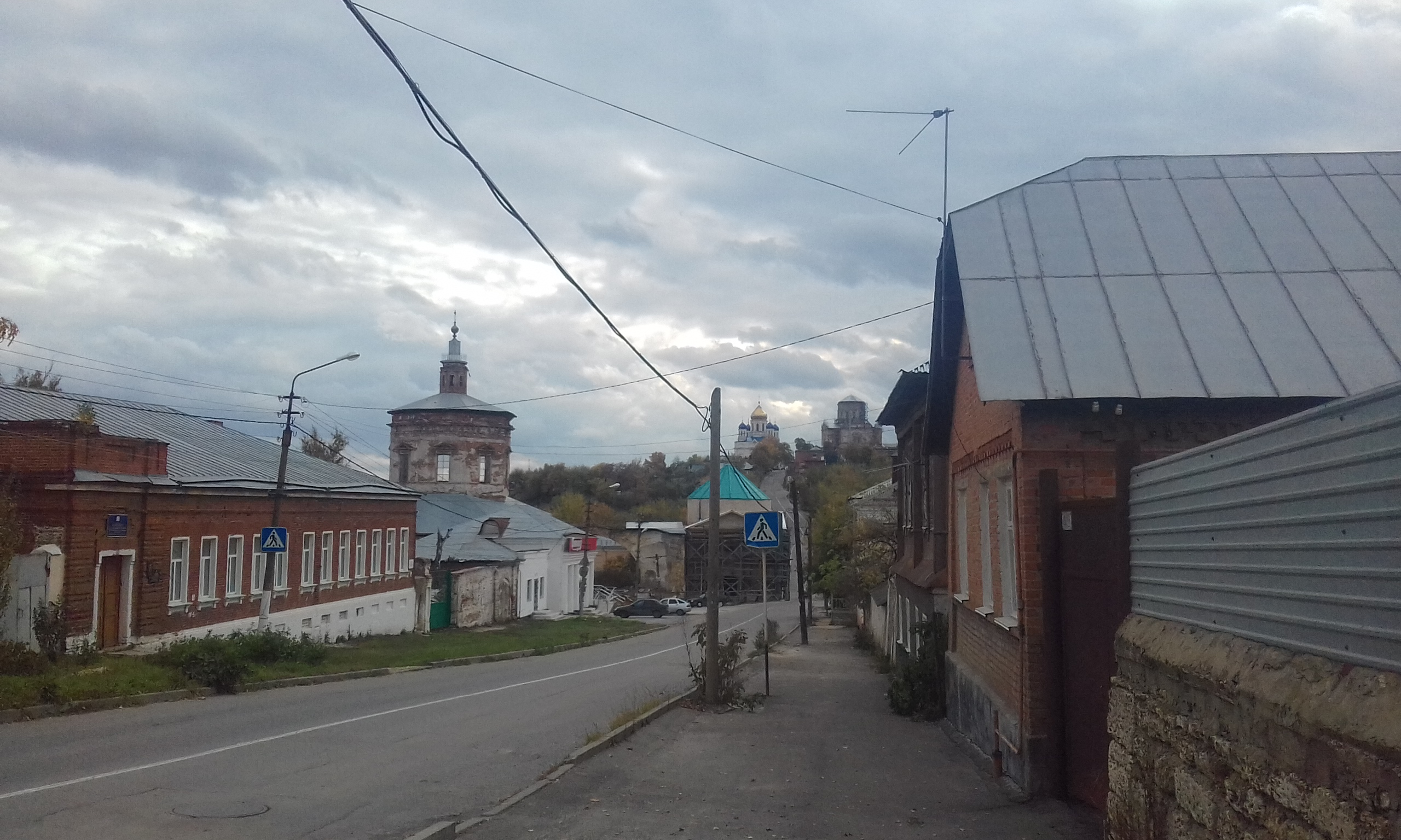 Елец. Улица Маяковского. 2 церкви и собор.